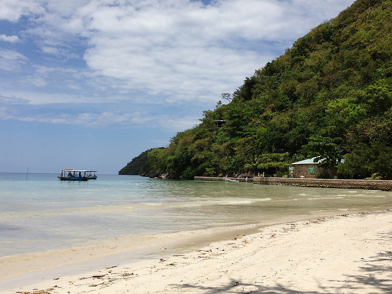 A view of the beach at Paradis, northern Haiti